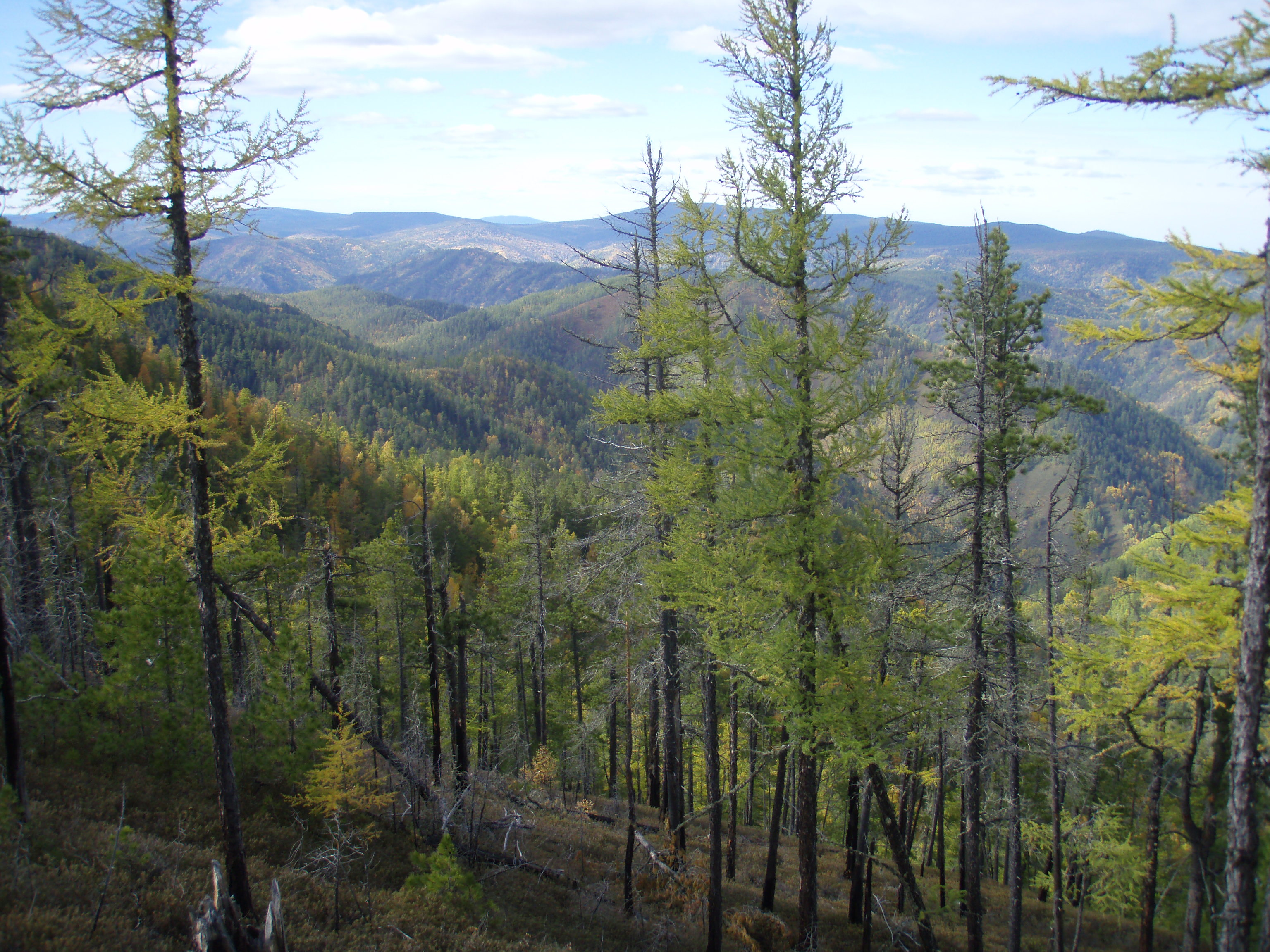 Siberian autumn 2011.All world is Taiga!